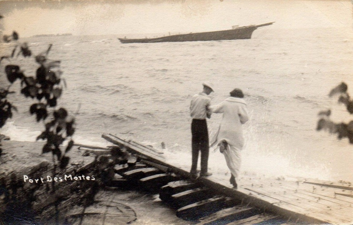 A couple stands on part of a shipwreck while looking at a wreak in the distance in the Porte des Morts off of the Door peninsula in Wisconsin.